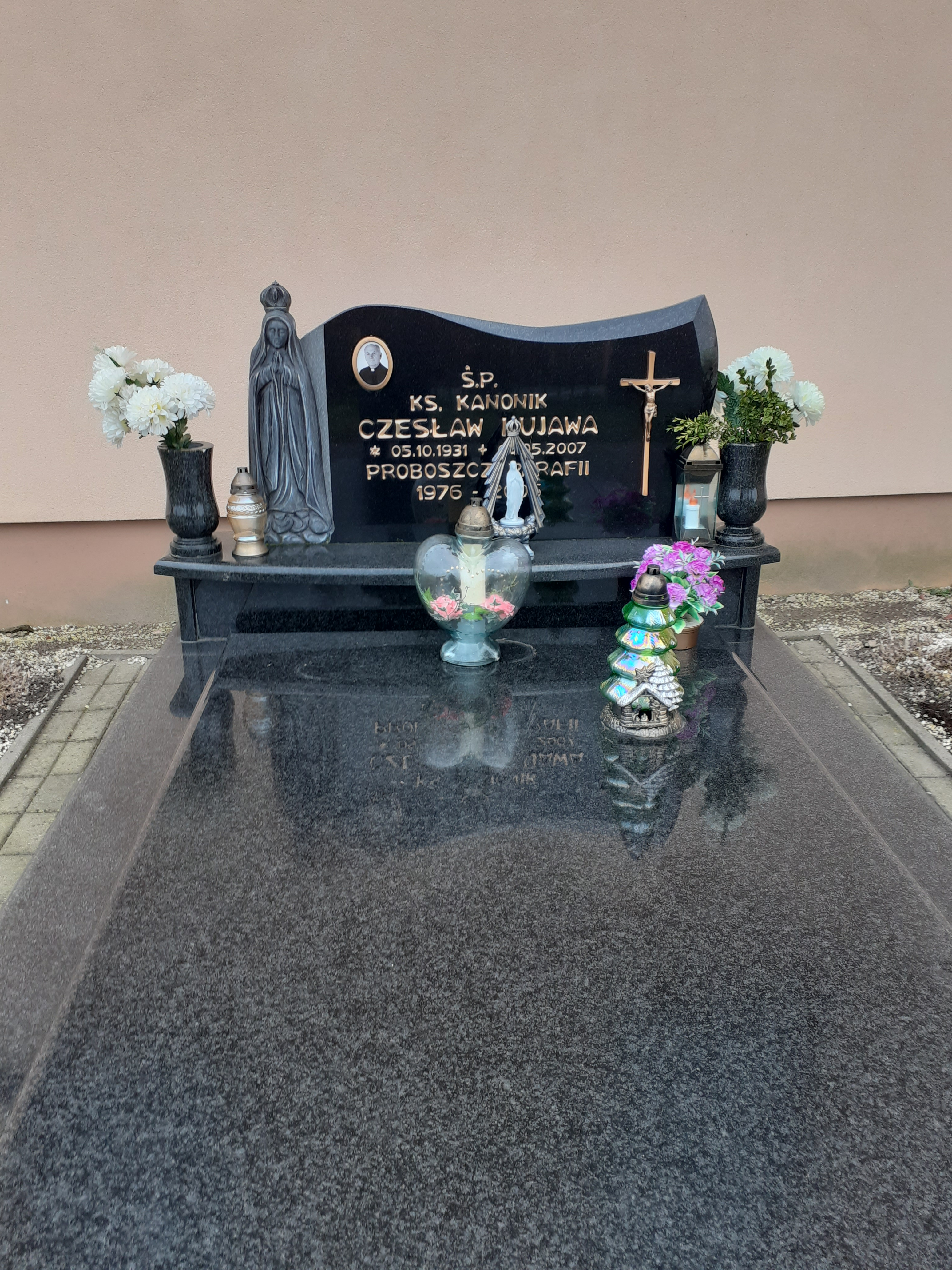 Czesław Kujawa grób Strzelce